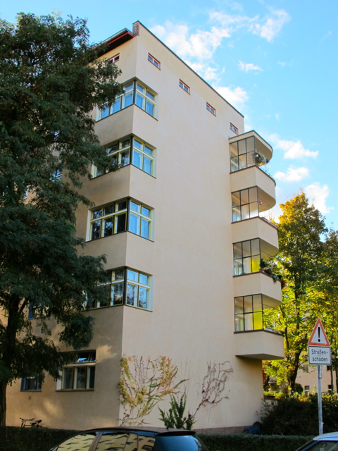 The housing estate Wohnstadt Carl Legien in Berlin-Pankow in October 2012